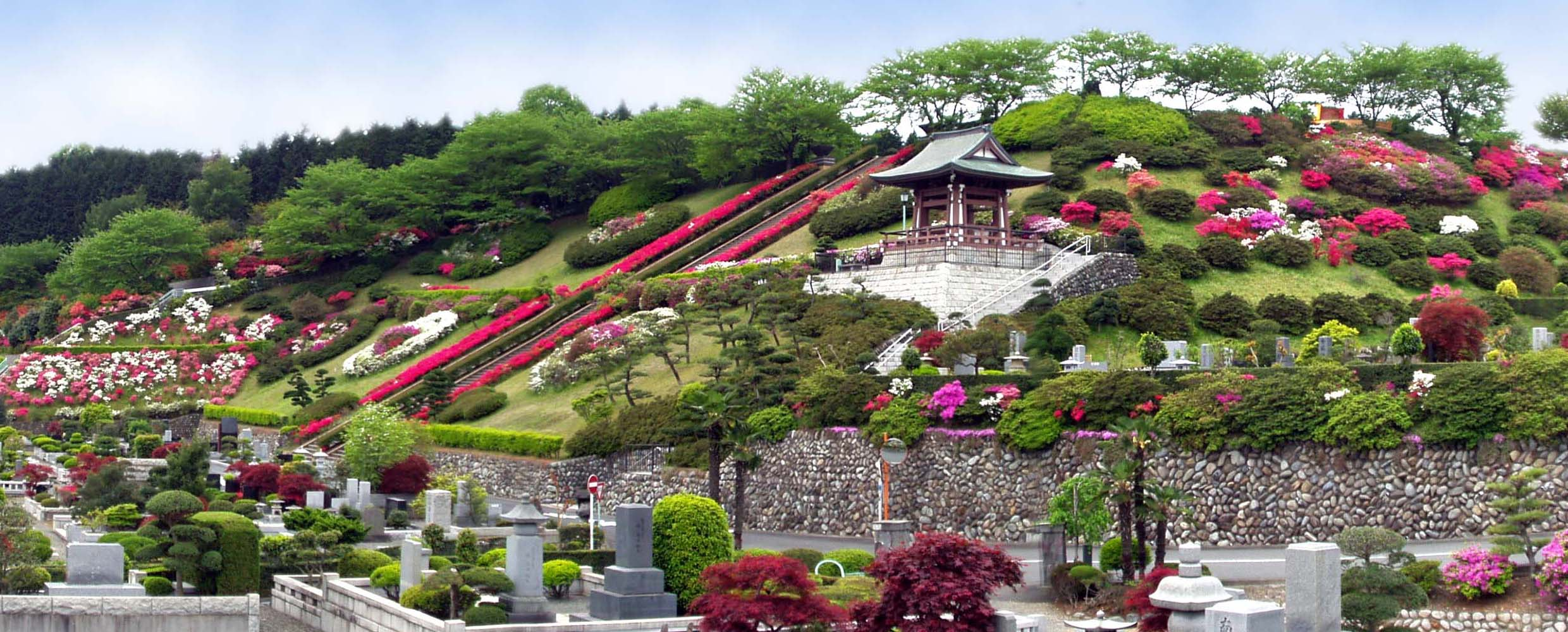 This field is required.